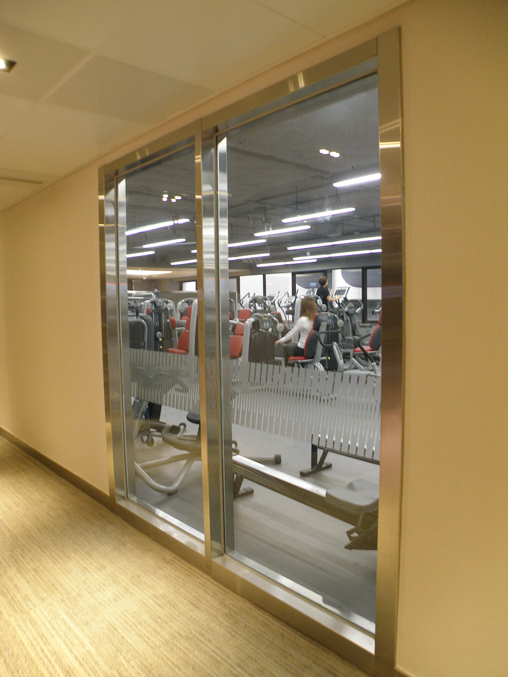 Fitness First in west Tsim Sha Tsui, Hong Kong.